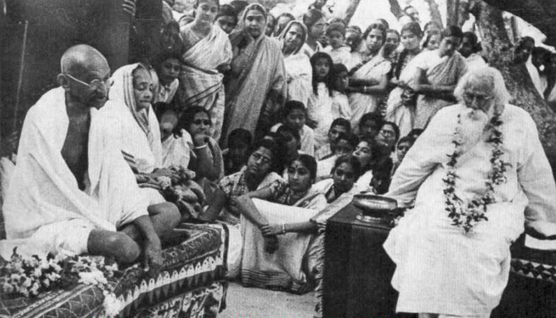 Rabindranath Tagore with Mohandas Gandhi and Kasturba Gandhi at Shantiniketan, British India.